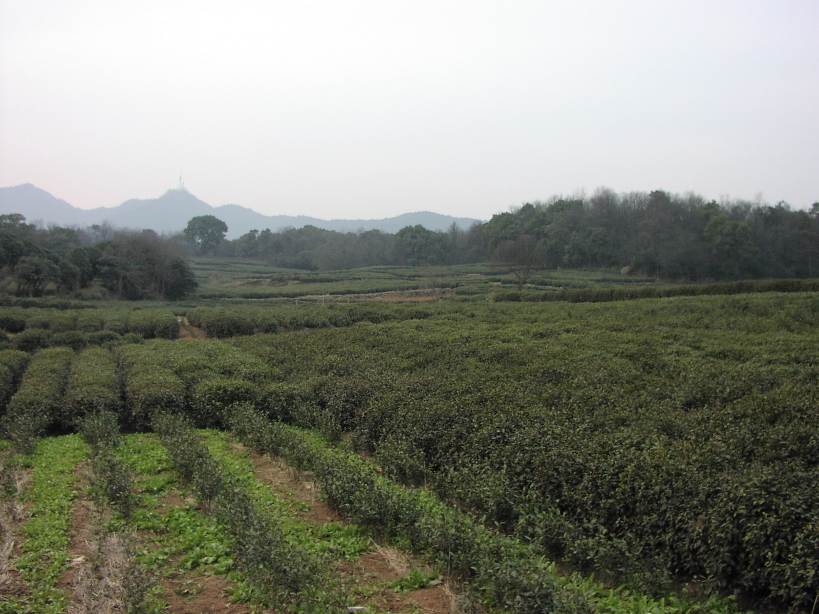 Culture du thé: Fields of tea.